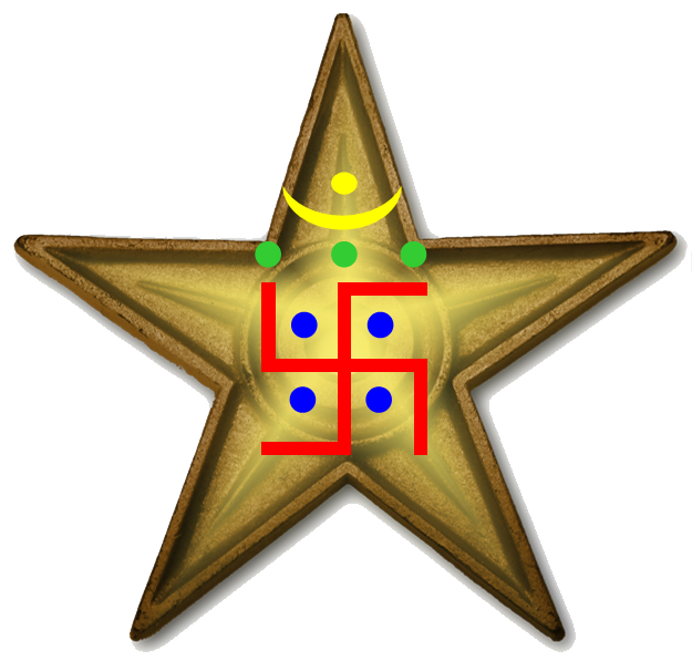 Jainism Barnstar Award